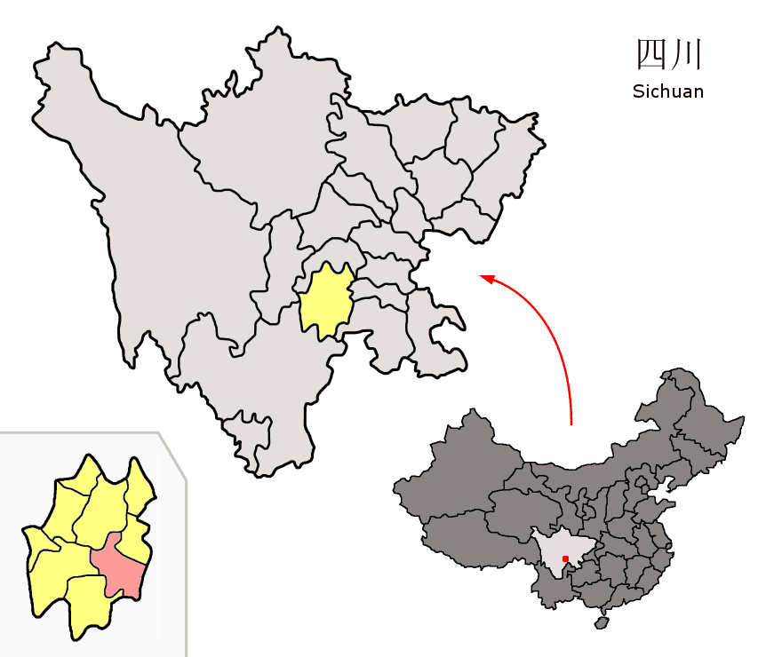 Location of Muchuan County (pink) and Leshan Prefecture (yellow) within Sichuan province of China Map drawn in september 2007 using various sources, mainly : Sichuan province administrative regions GIS data: 1:1M, County level, 1990 Sichuan Counties map from Map of Yunnan & Sichuan Area from